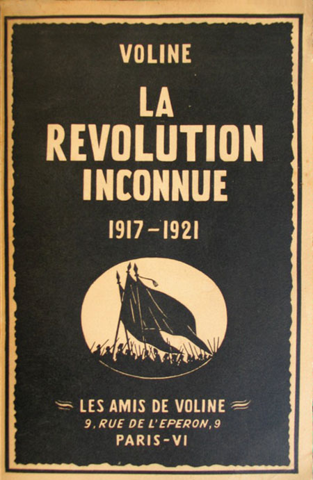 The publisher agreed to copy the book.